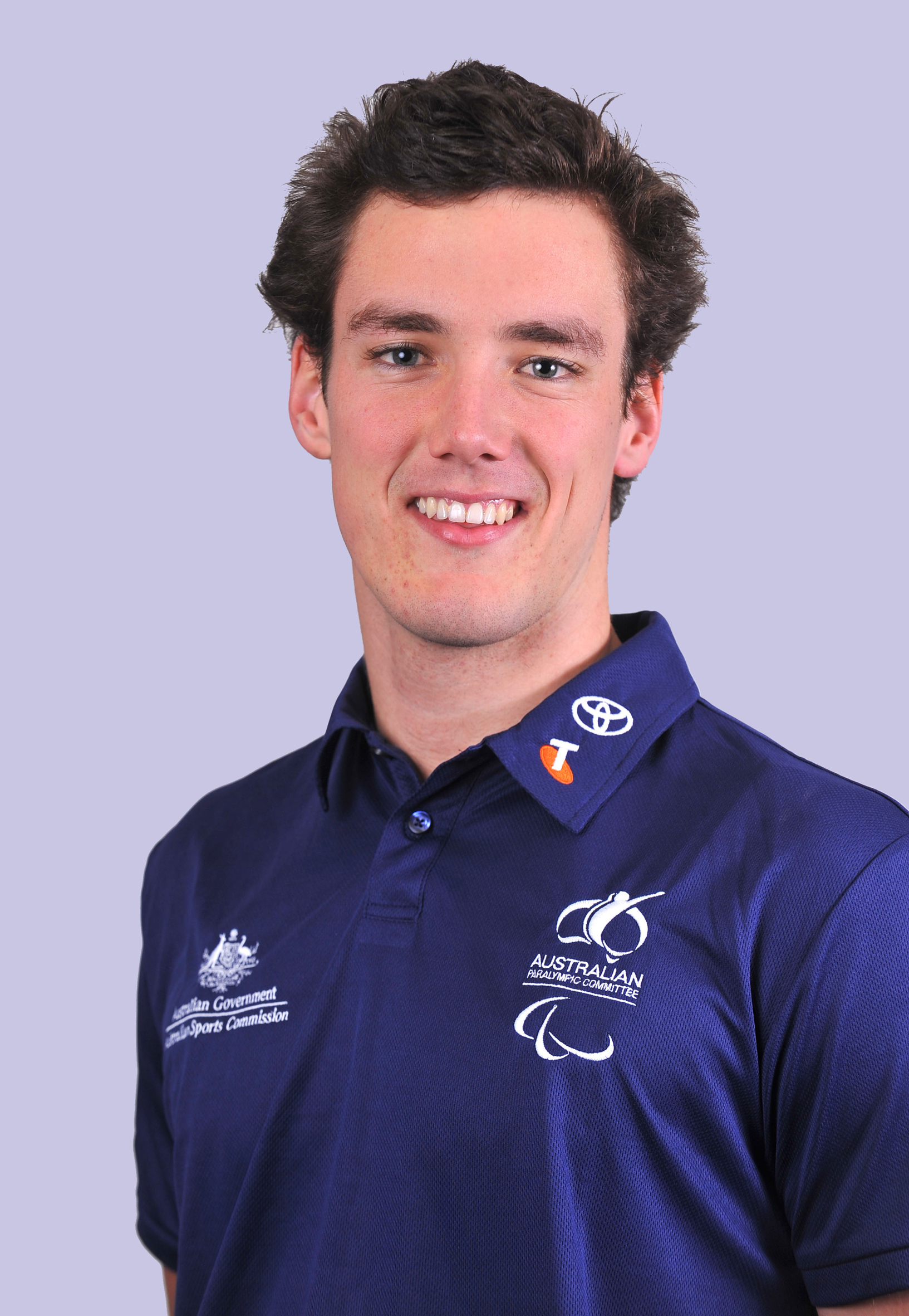 Portrait of Australian swimmer Blake_Cochrane, 2012 Australian Paralympic (shadow) Team athlete